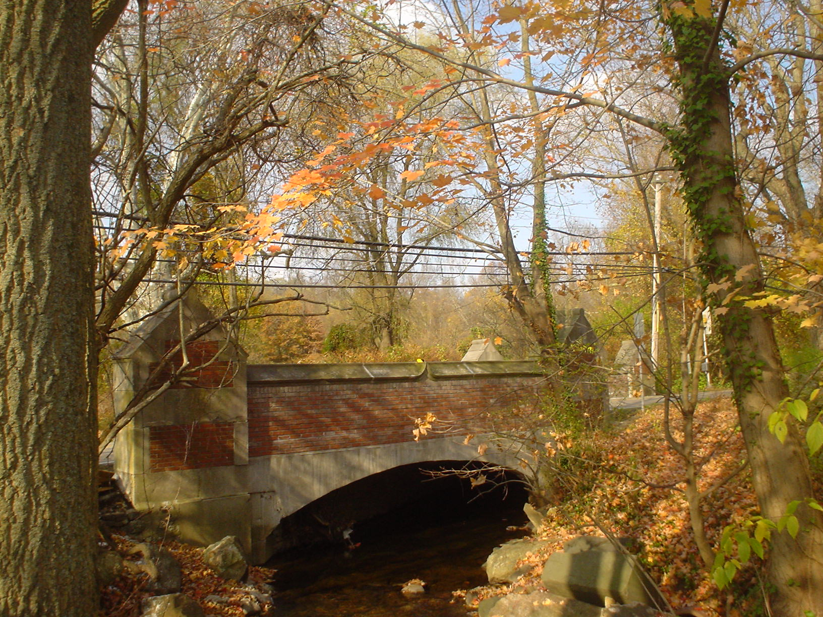 Bridge No. 2 in Radnor Township, Delaware County, PA. Built in 1905 (note Bridge No. 1 also built in 1905) On NRHP.